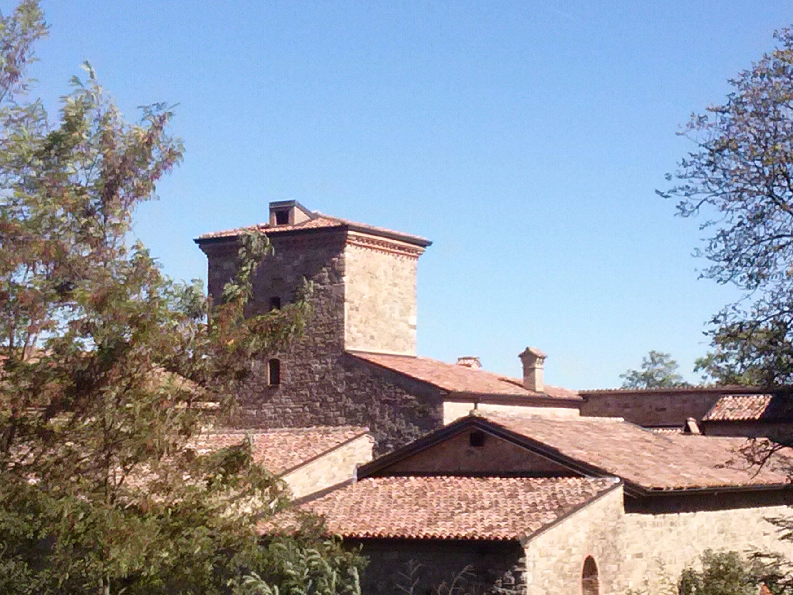 Torre Rizzi (Rizzi Tower), municipality of Piozzano (Piacenza, Italy)